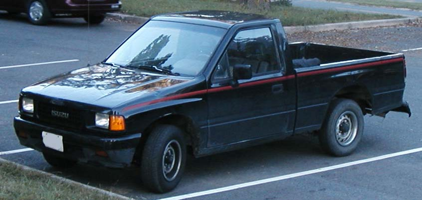 Isuzu Pickup photographed in USA.